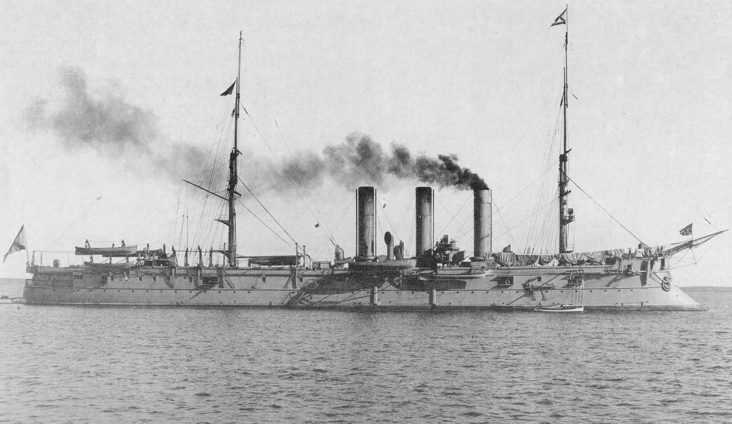 Imperial Russian training ship Dvina in Reval, 1910s.